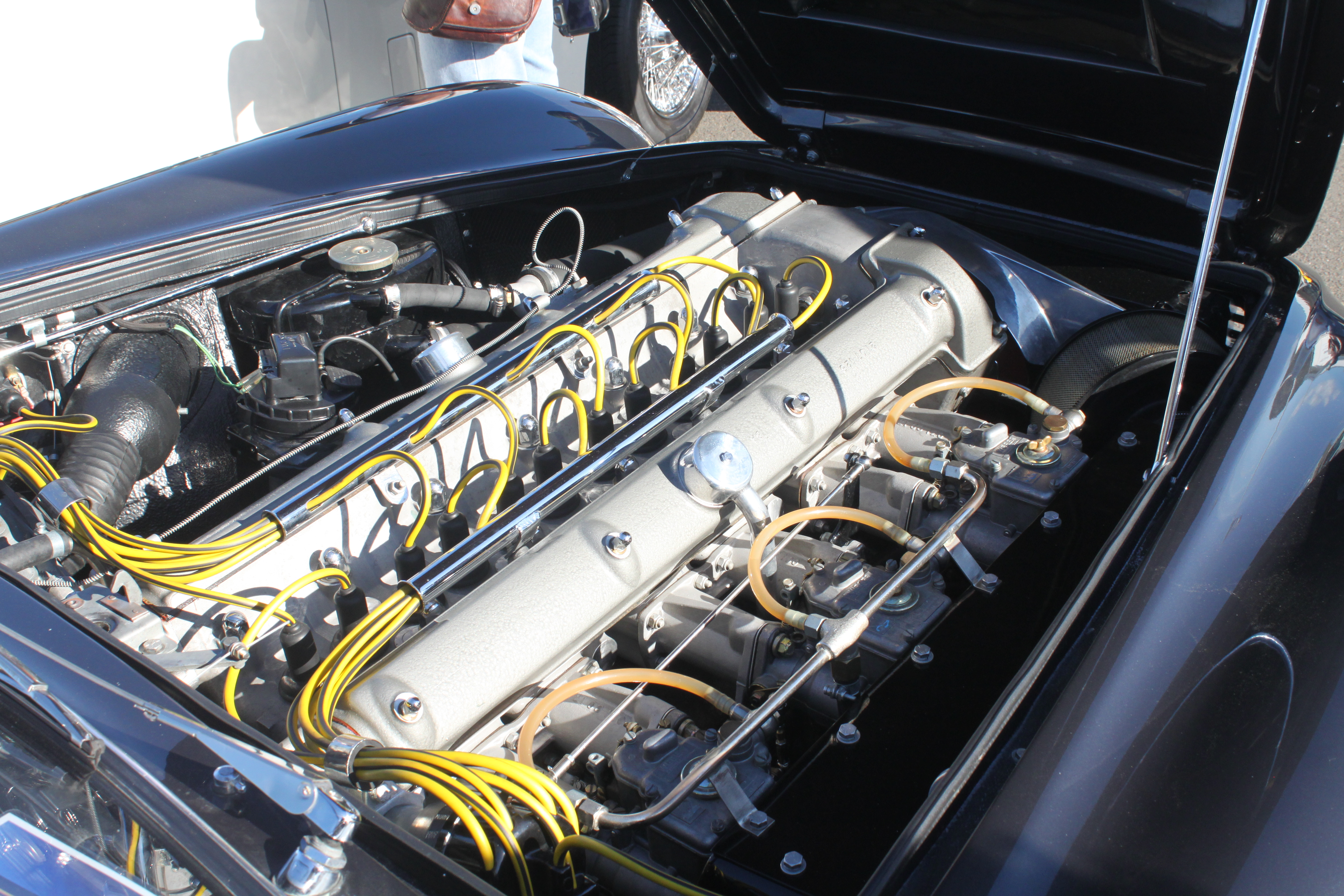 RMYC Unique Car Show, Newport, NSW July 2015